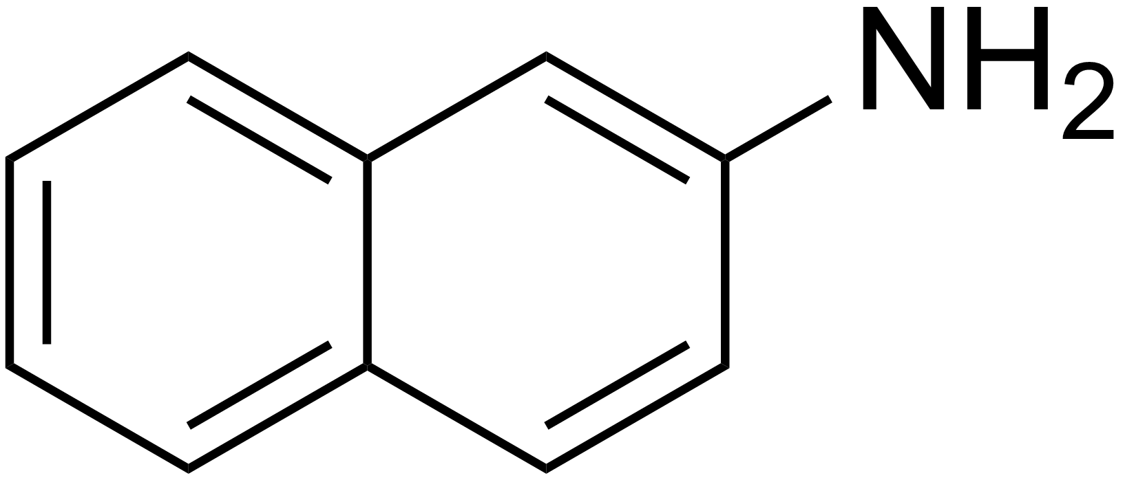 chemical structure of 2-naphthylamine created with ChemDraw